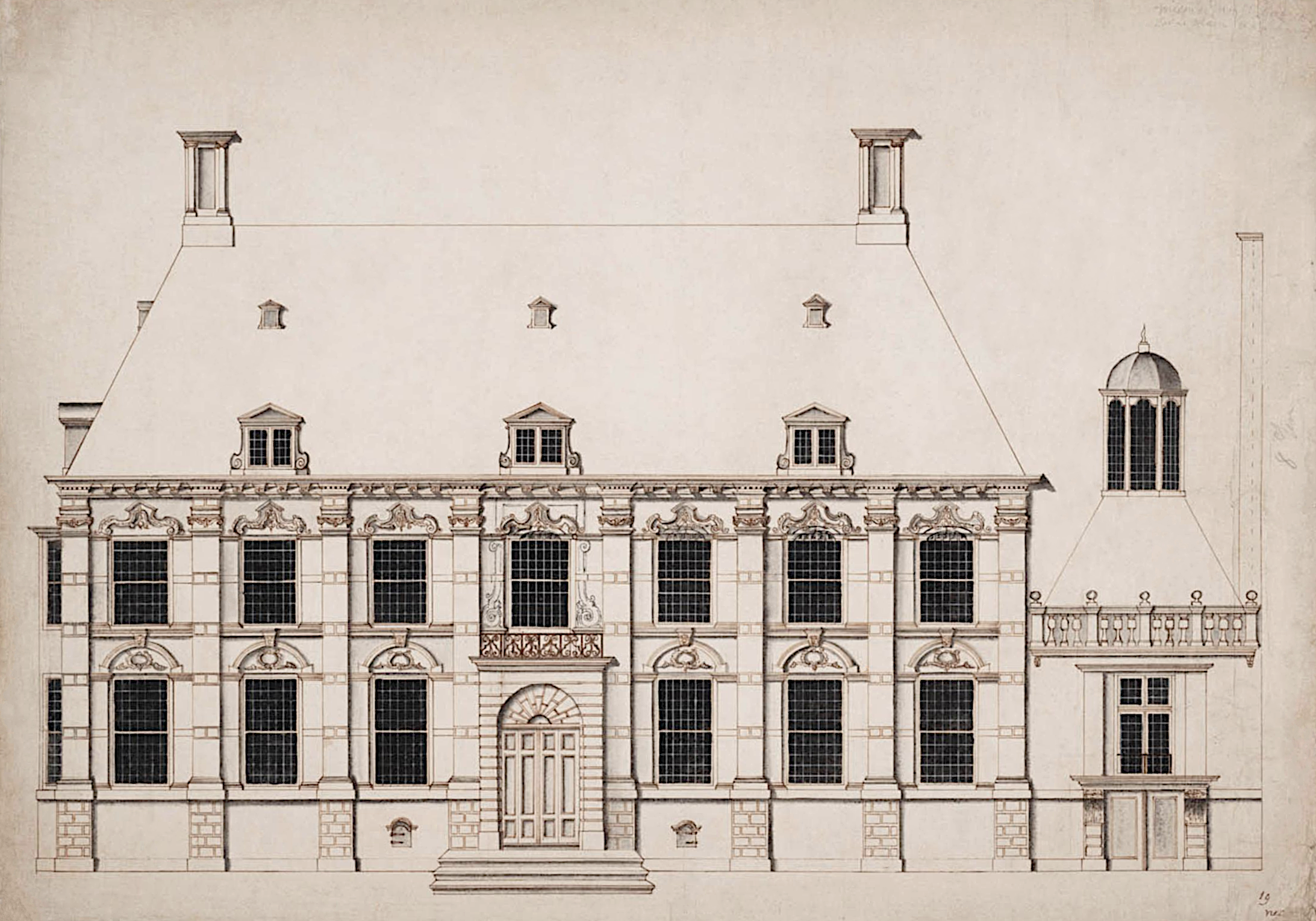 House of Count Louis Adrian of Nassau-Odijk on the northwest side of Plein square in The Hague. It was built in 1640 for Johan de Bruyn van Buytewech, lord of Nieuwkoop, Noorden and Achttienhoven.